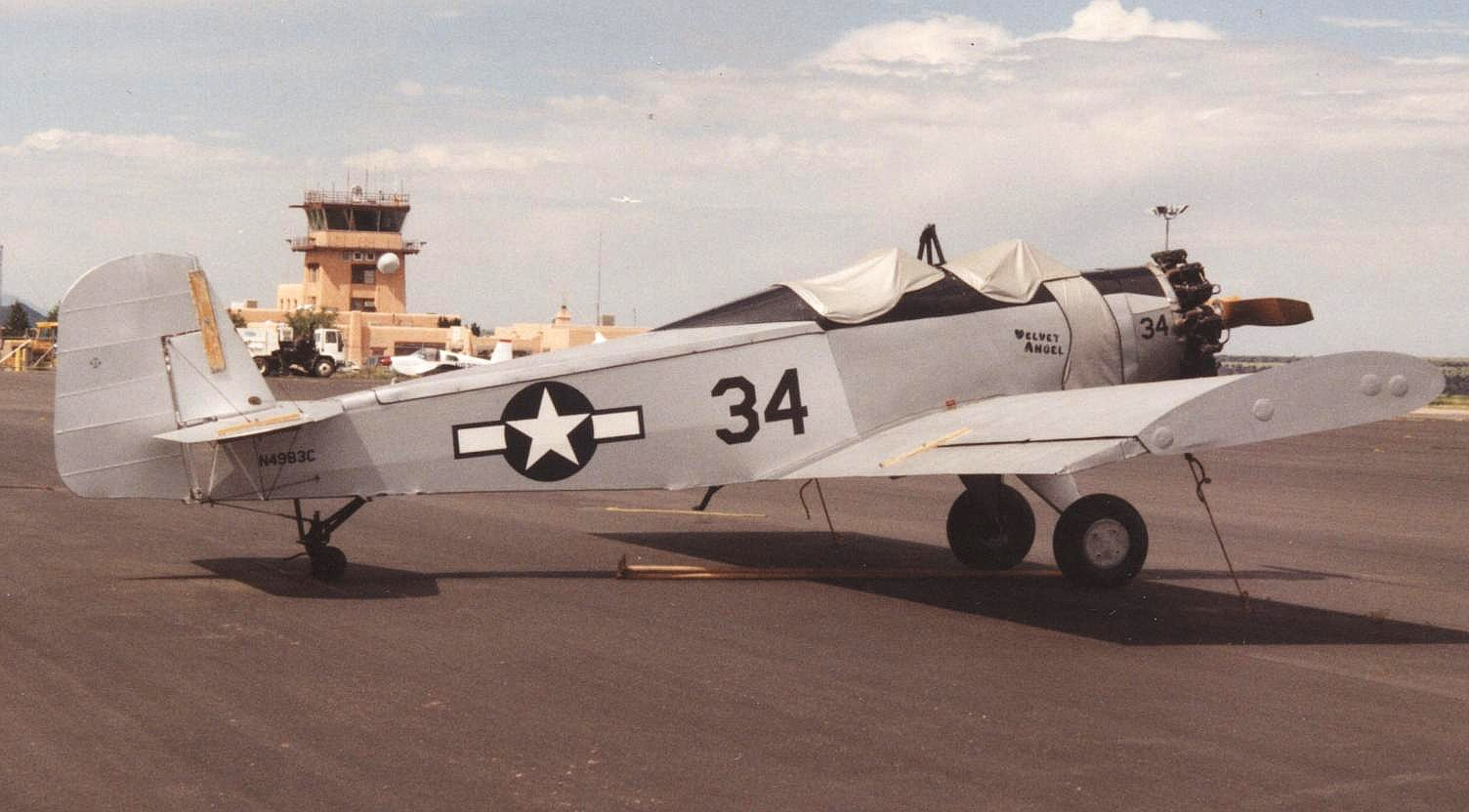 Snow S-2A crop sprayer N4983C of 1958 with open cockpits in pseudo-USAF markings at Santa Fe airport, New Mexico